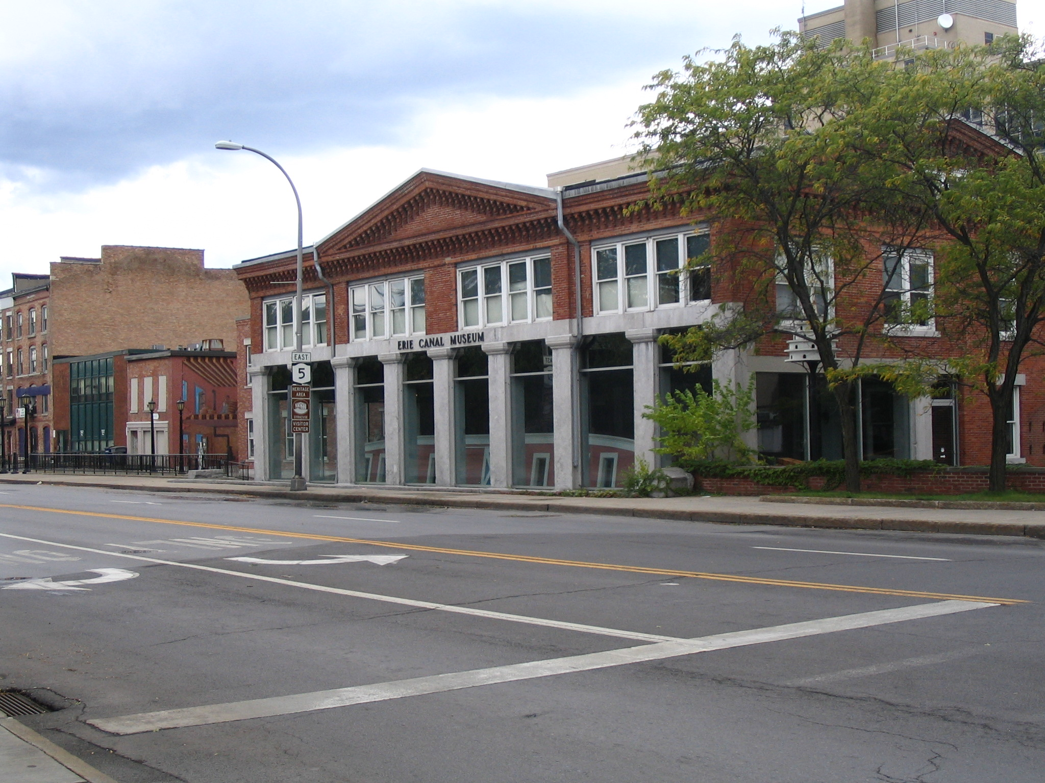 Erie Canal Museum in Syracuse, NY. Former weighlock bulding, built in 1850. The picture is taken from the same place as an old photograph showing the canal instead of the street.